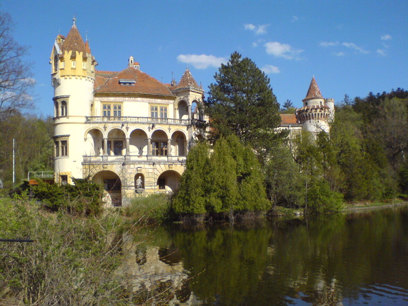 Žinkovy Chateau, Plzeň-South District, Czech Republic. A view from the north.